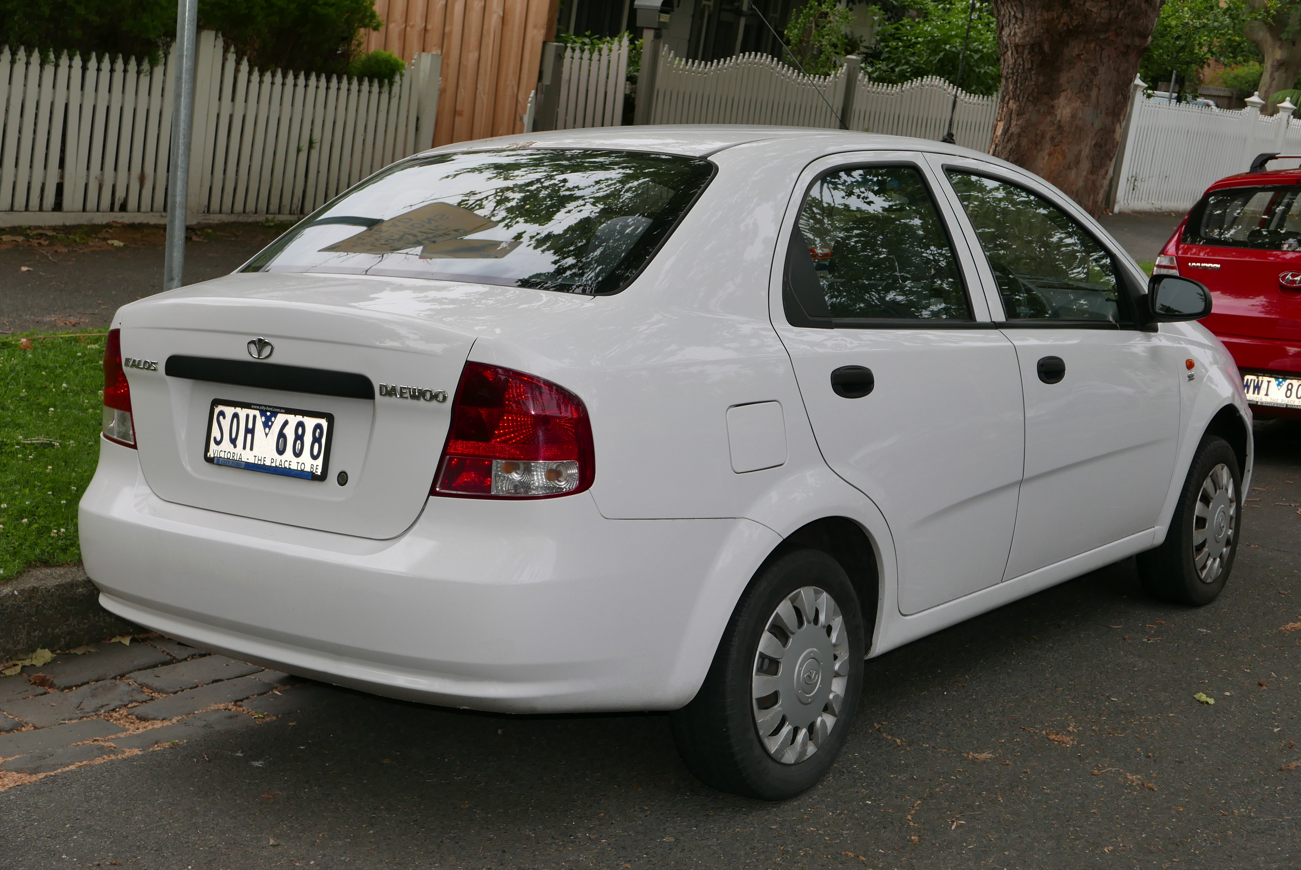 2003 Daewoo Kalos (T200) SE sedan. Photographed in Flemington, Victoria, Australia. Vehicle registration enquiry resultsJurisdictionVictoriaRegistrationSQH688Chassis codeKLASA69YE3B093973Engine code030980KCompliance date2003-11Year of manufacture2003